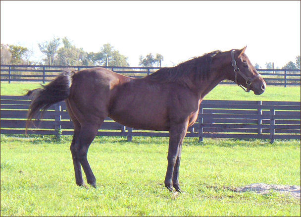 Ogygian at age 23 in retirement at Old Friends, Kentucky